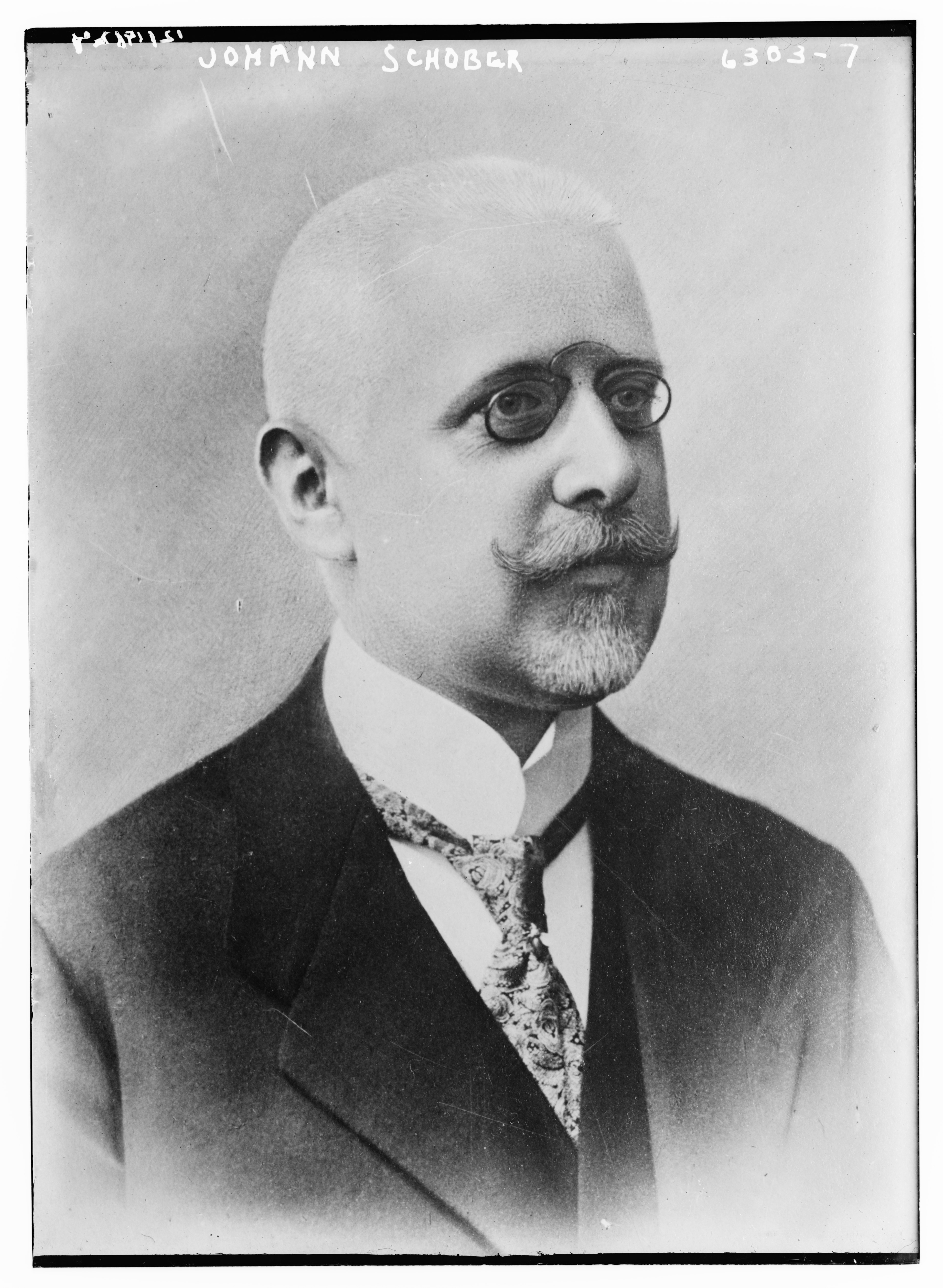 Title: Johann Schober Abstract/medium: 1 negative : glass ; 5 x 7 in. or smaller.